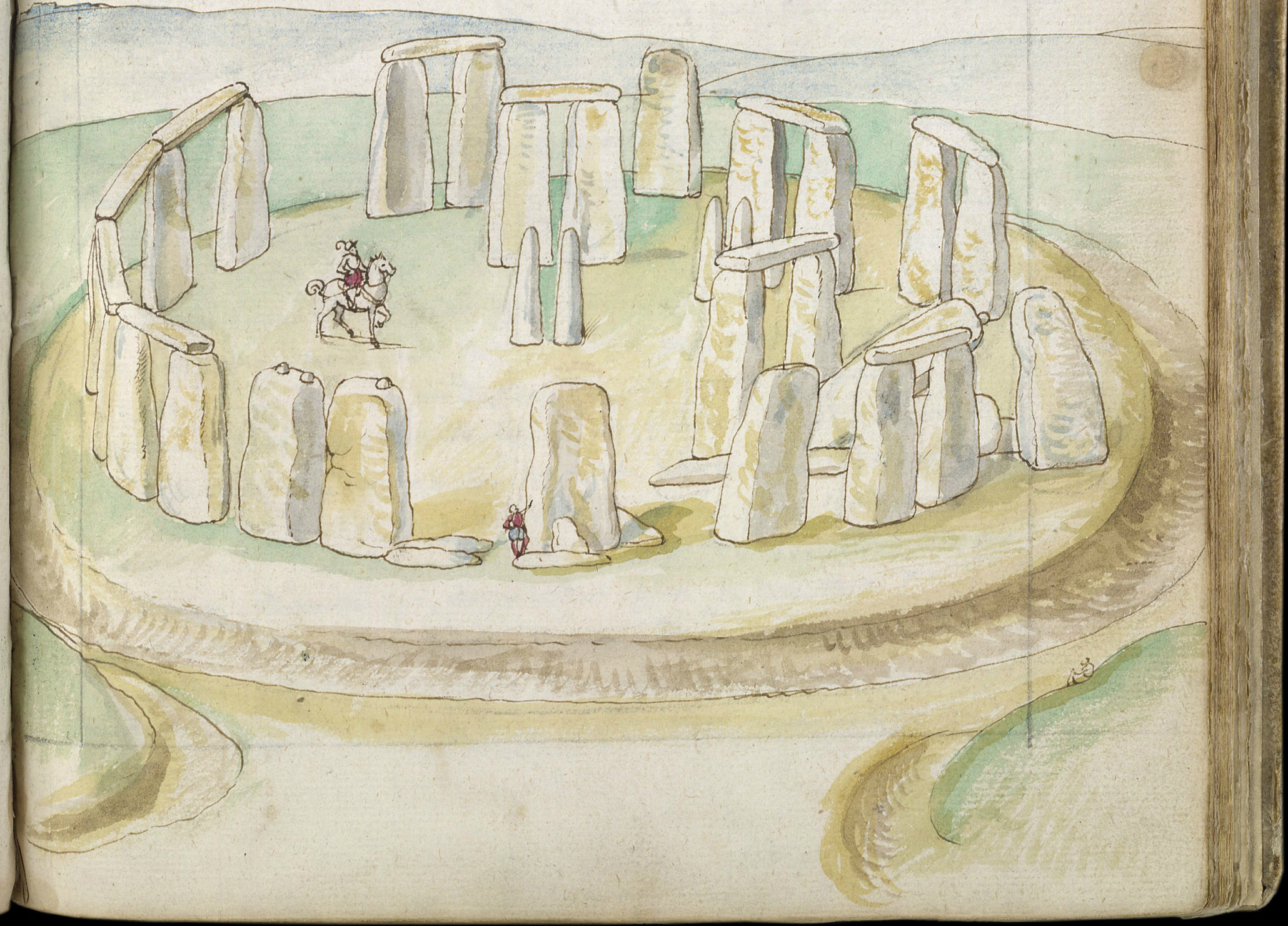 First realistic Painting of Stonehenge, painted with watercolors by Lucas de Heere